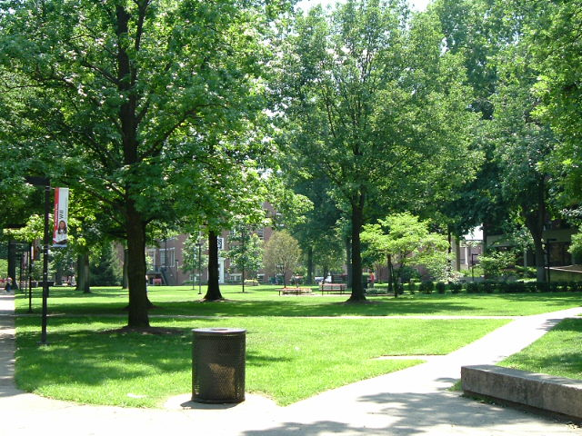 UL quad